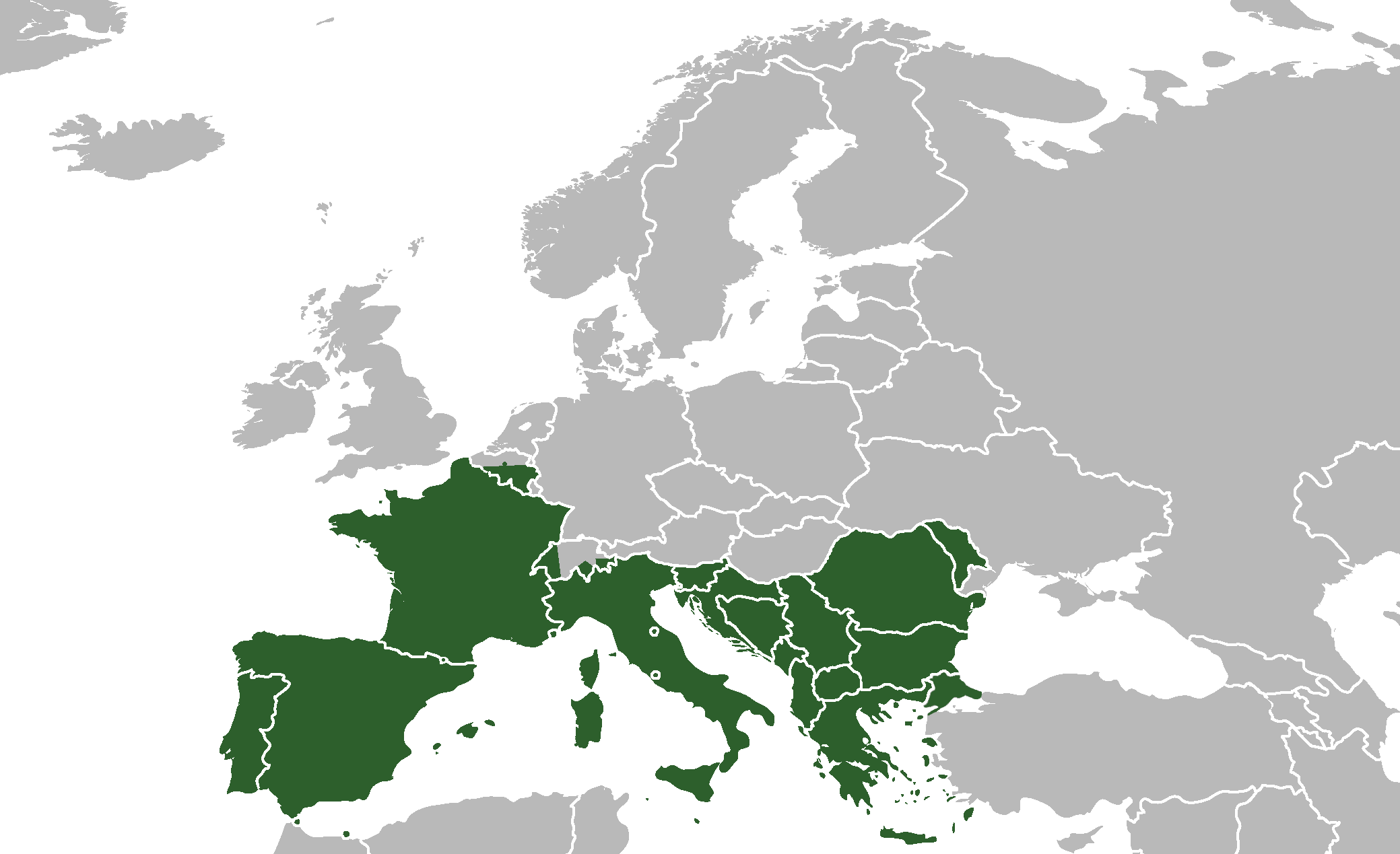 Southern Europe.